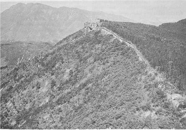 Photo of the walled ruins of Ka-san, 1950.